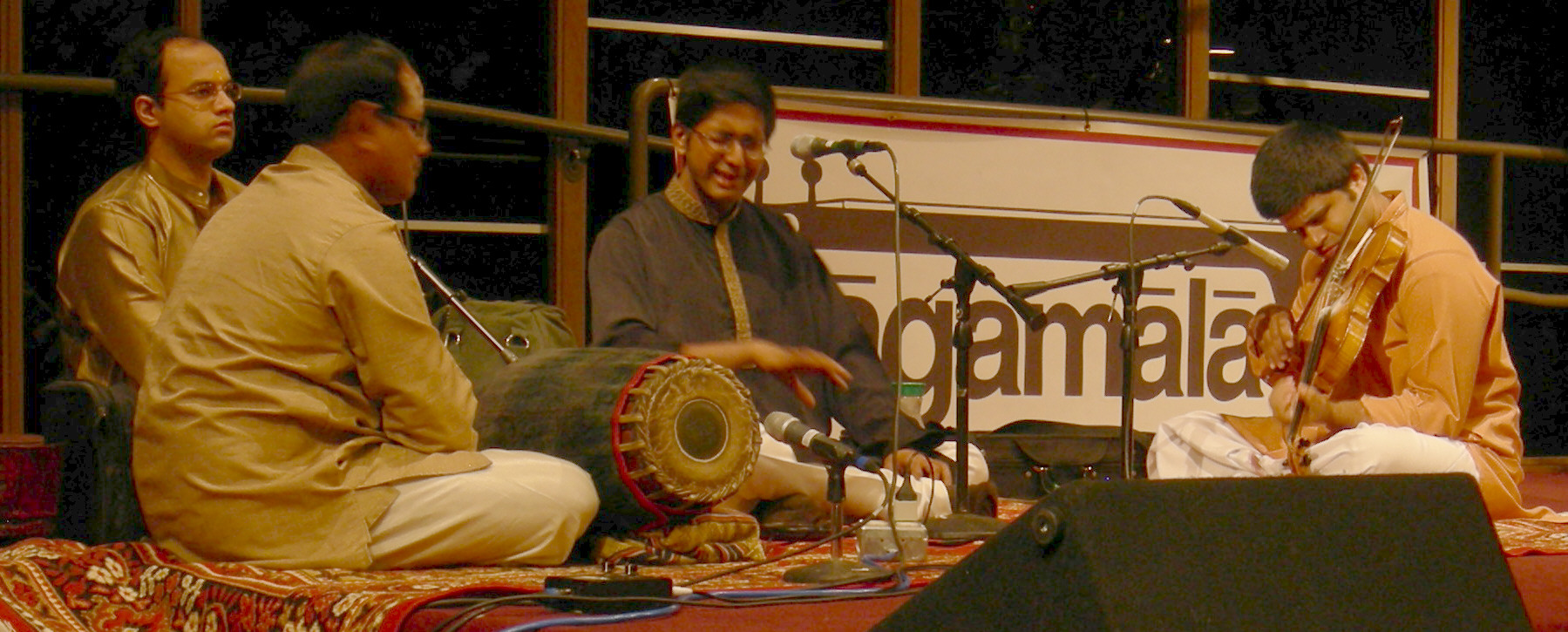 Carnatic vocalist Abhishek Raghuram, in concert at Eastshore Unitarian Church, Bellevue, Washington, accompanied by Mysore K. Srikanth (violin), Ganapathy Raman (mridangam), and Dr. Ravi Balasubramanian (ghatam). Part of the Seattle-area Ragamala concert series. This is one of a series of photos I (Joe Mabel) took on that occasion. It was not ideal shooting conditions for my inexpensive digital camera, which only shoots at about the equivalent of ISO 400 at most. In general, I underexposed (in various degrees) to avoid too much motion blur, planning to fix what I could in postprocessing. About 60 images have been uploaded to the Wikimedia Commons. In each case, the raw version is uploaded and, in most cases, one (or occasionally two) versions that are colormapped lighter (and sometimes bluer) and, in about half the cases, cropped.